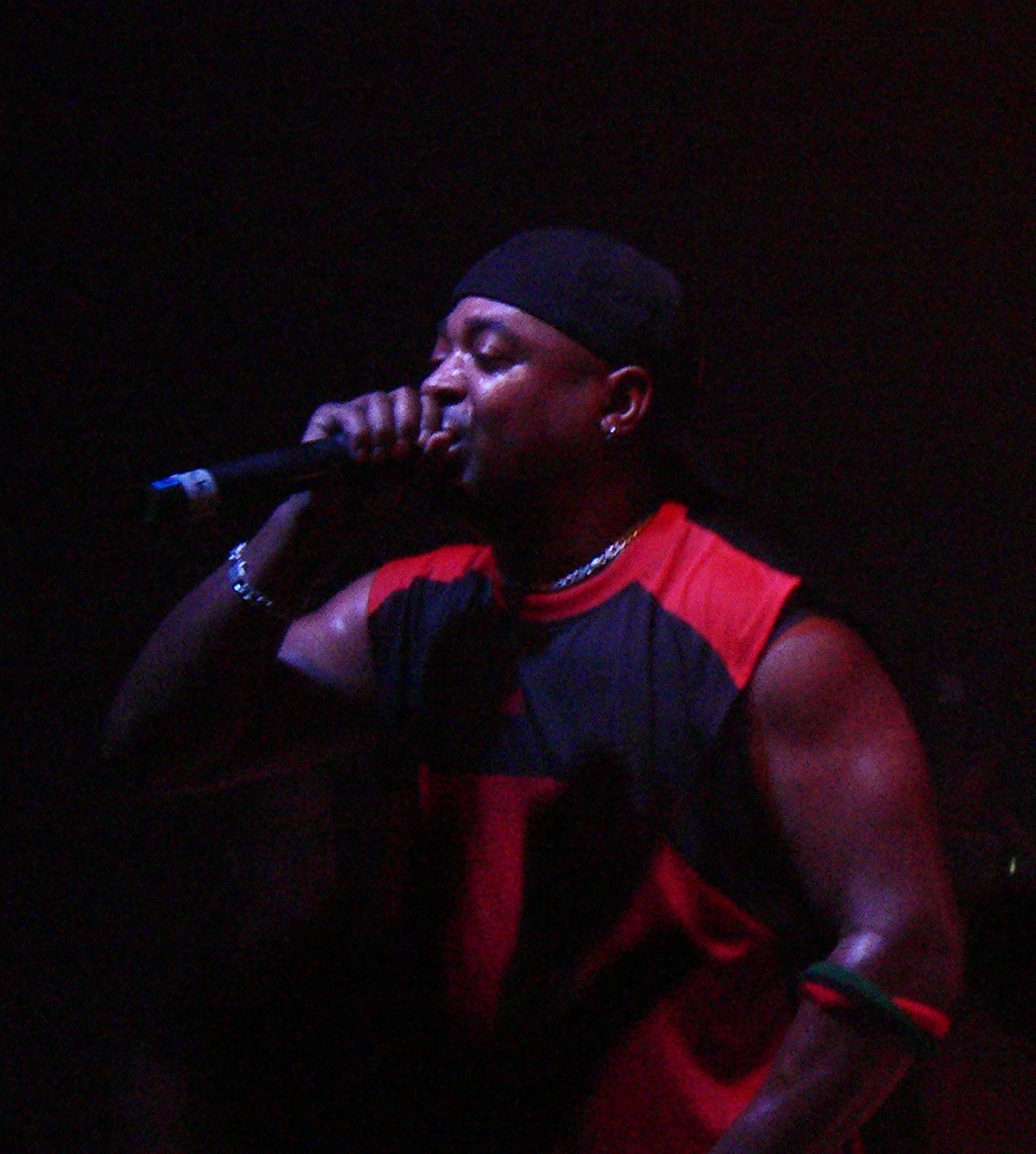 Public Enemy in concert, Zagreb 2006 (Chuck D)